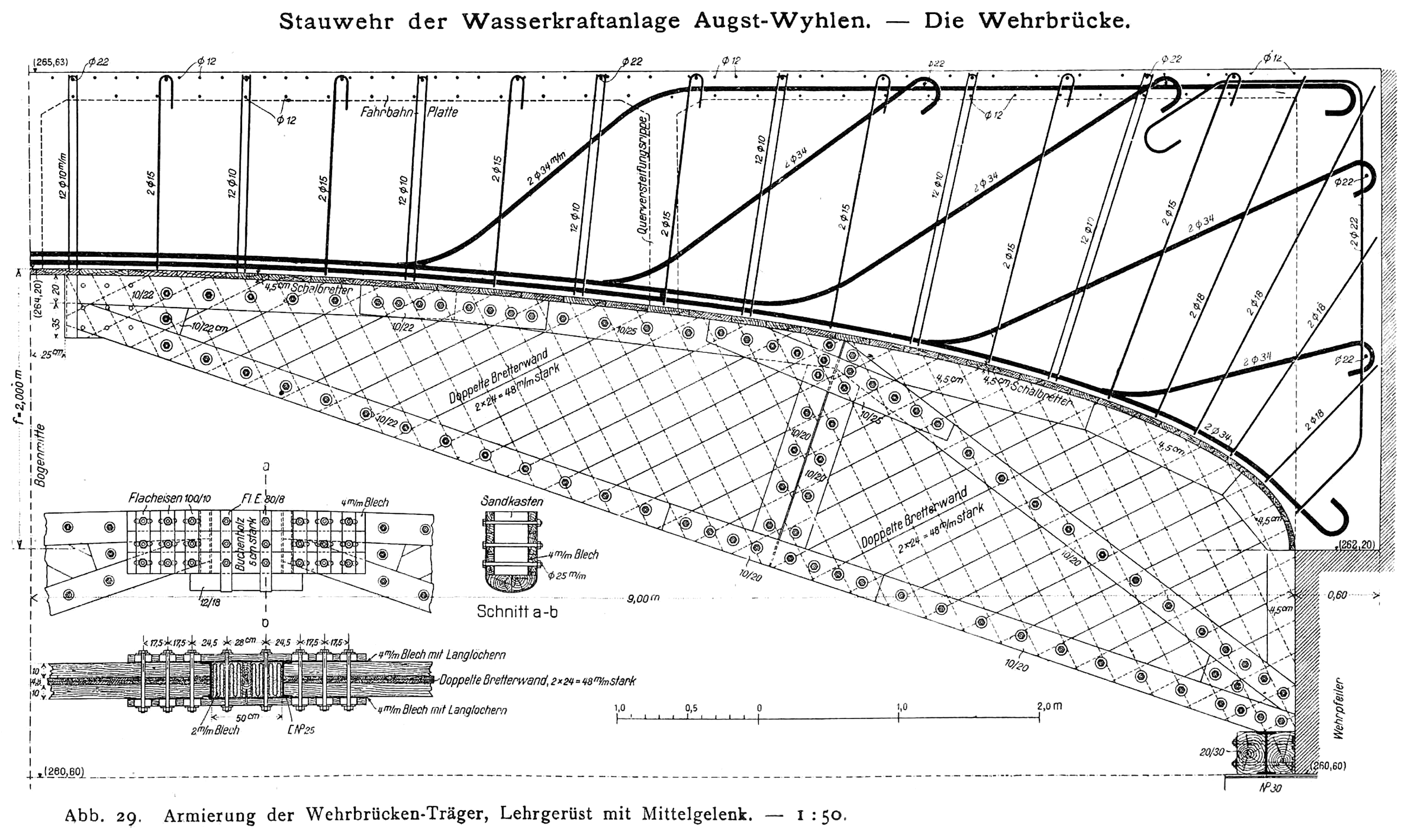 Construction plan for falsework and reinforcing of the bridge by Robert Maillart for the power station Augst-Wyhlen crossing the Rhine, 1910; Basel-Landschaft, Switzerland and Baden-Württemberg, Germany.